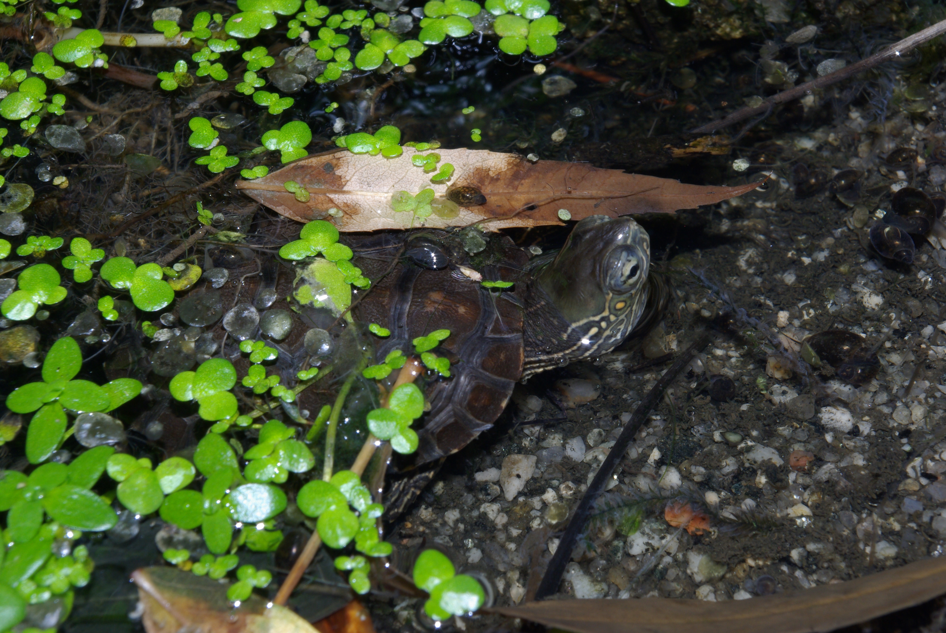 Spanish Pond Turtle (Mauremys leprosa) at river Tiétar. Near La Adrada (Ávila, Spain)